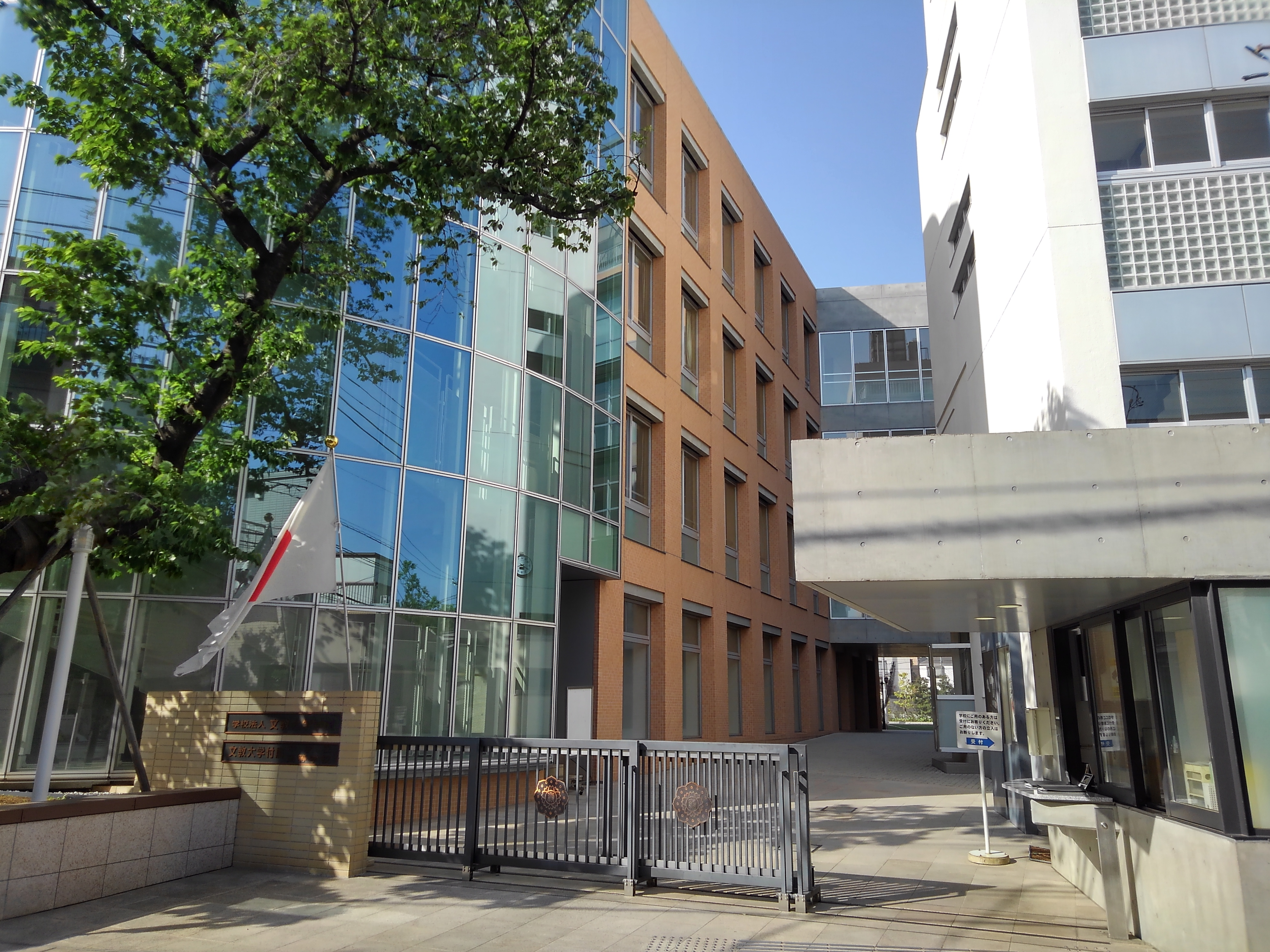 Main entrance of Bunkyo University Junior & Senior High School in Shinagawa-ku, Tokyo, Japan.